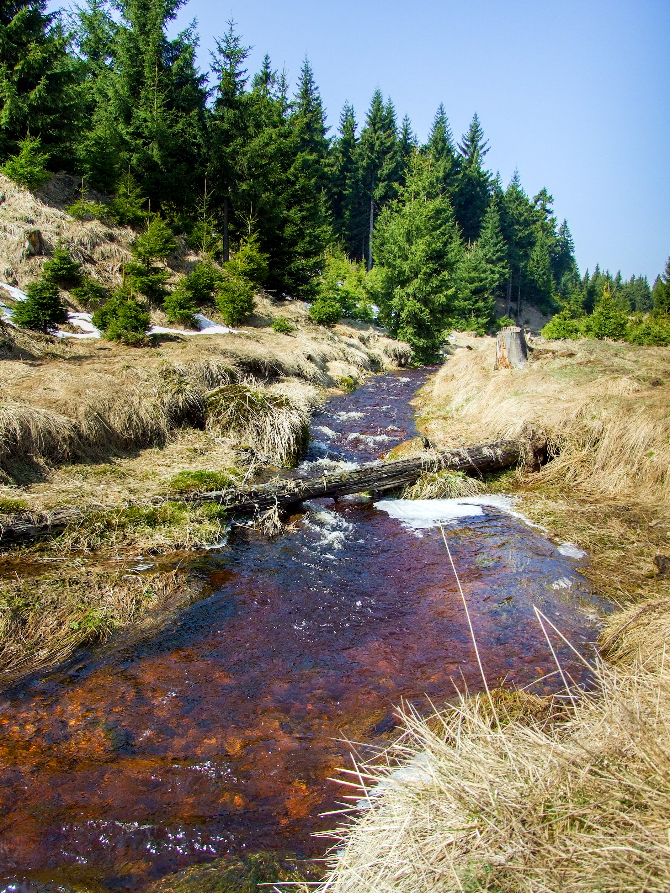 Telcsky creek, Ore Mountains, Czech Republic